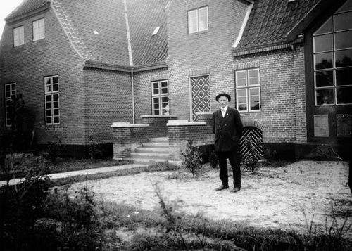 Ulrik Plesner in front of Skagen Museum in 1928-1929